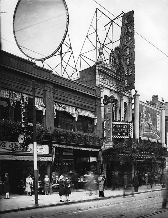 Capitol Theatre, Sainte Catherine Street, Montreal, Quebec, Canada.